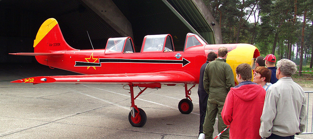 Yakovlev JAK-52 (RA-3085K) at Airport Niederrhein